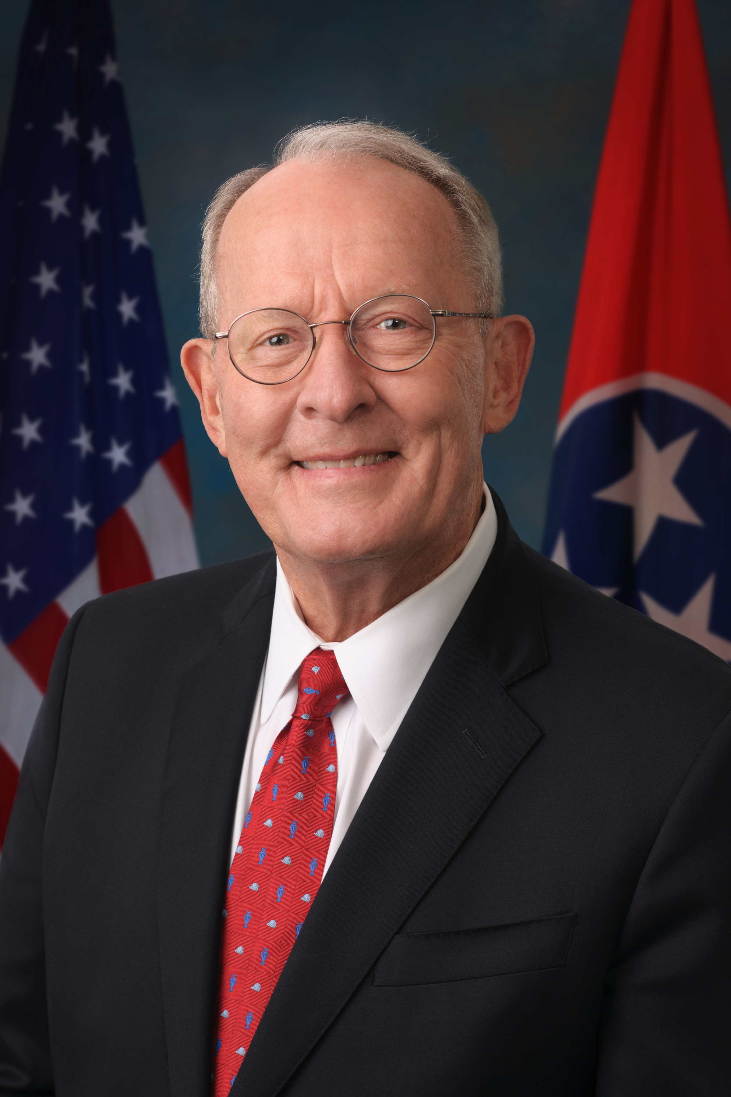 This is the official portrait of Senator Lamar Alexander (R-TN) provided by his website.